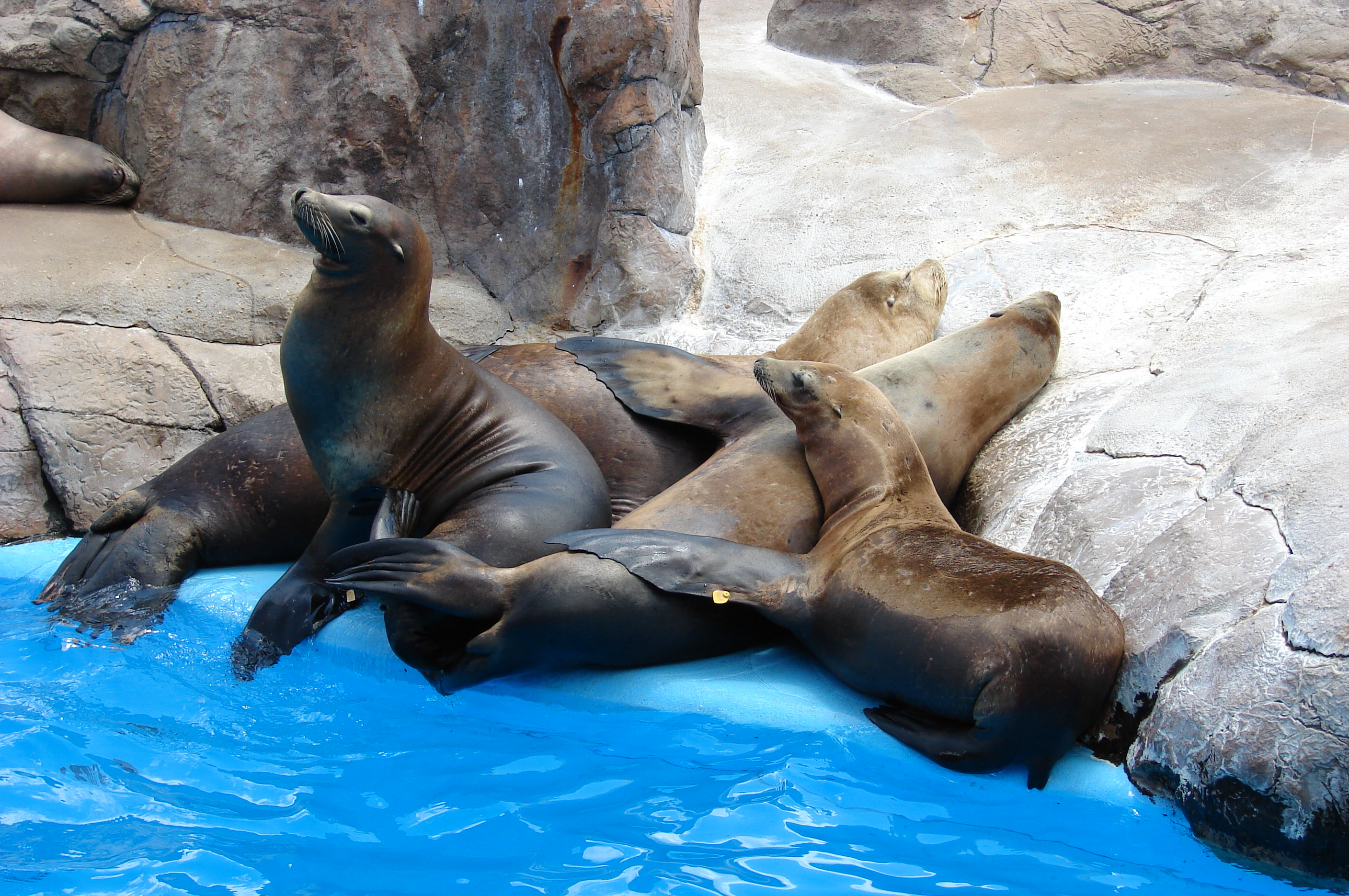 Sea lions at SeaWorld in San Antonio, Texas.